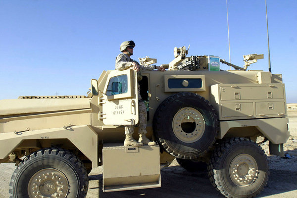 Marine Sgt. Jason Tinnel stands up on a "Cougar" to watch the detonation of a weapons cache on the edge of Fallujah, Iraq, Dec. 20, 2004. The Cougar is a 28,550-pound hulk of a vehicle, wrapped in steel armor and ballistic glass and driven by a six-speed, split-shift, all-wheel drive transmission designed to get the vehicle through hazardous and uncertain terrain.